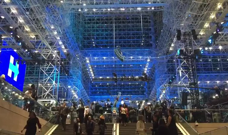 Javits Center election night